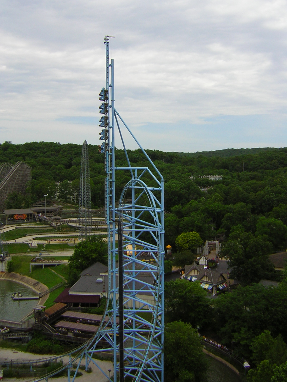 Mr. Freeze roller coaster at Six Flags St Louis.